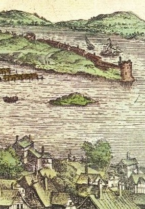 Strömsborg viewed from north with Riddarholmen in the background. Stockholm, Sweden. Detail from an engraving by Frans Hogenberg, c. 1570.